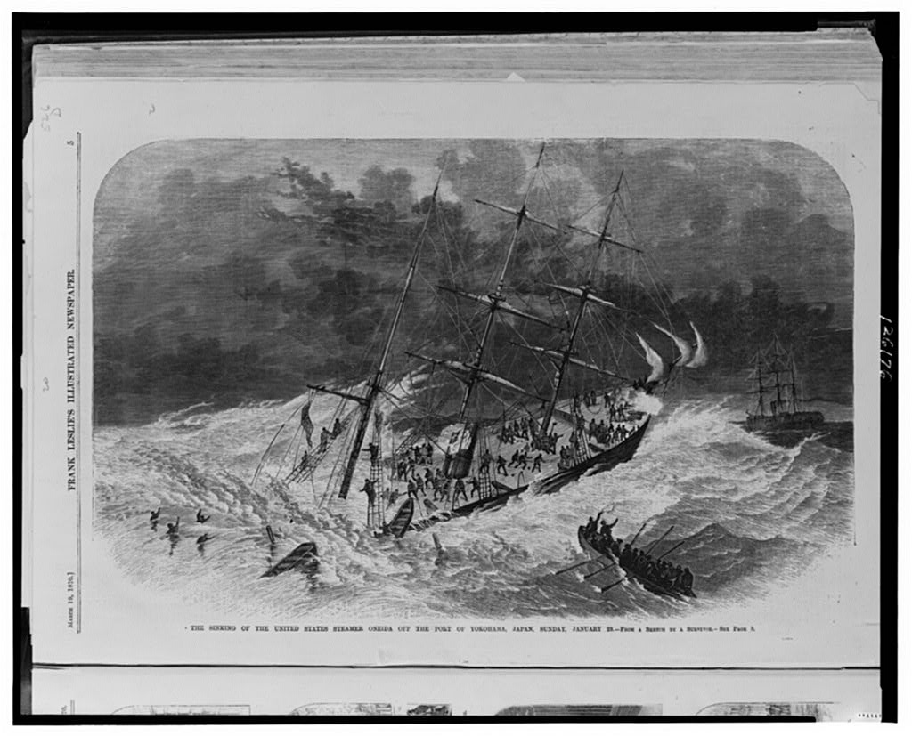 Library of Congress description: The sinking of the United States steamer Oneida off the port of Yokohama, Japan, Sunday, January 23